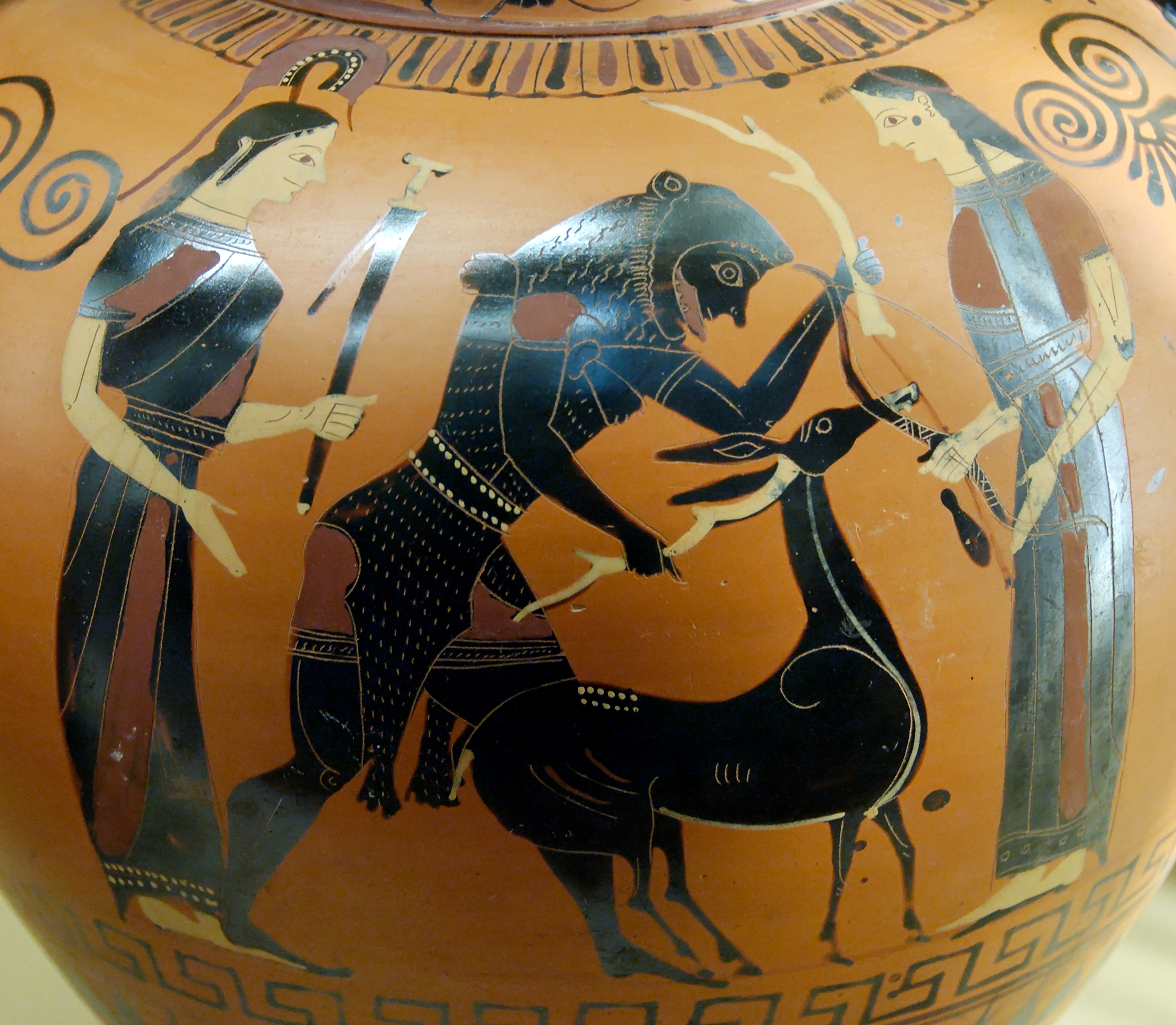 Herakles captures the Hind of Keryneia, breaking off one of its golden antlers, while Athena (on the left) and Artemis (on the right) look on. Attic black-figured neck-amphora, ca. 540–530 BC. Said to be from Vulci.